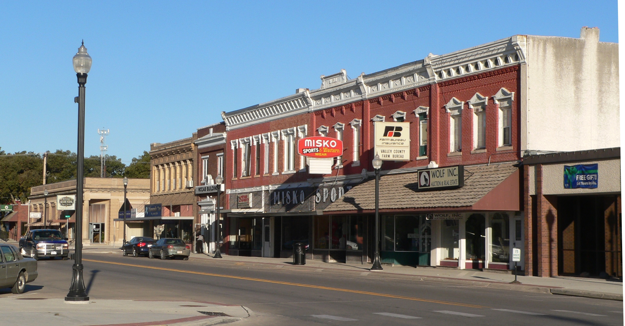 Downtown Ord, Nebraska: north side of L Street, looking northwest from about 15th Street.